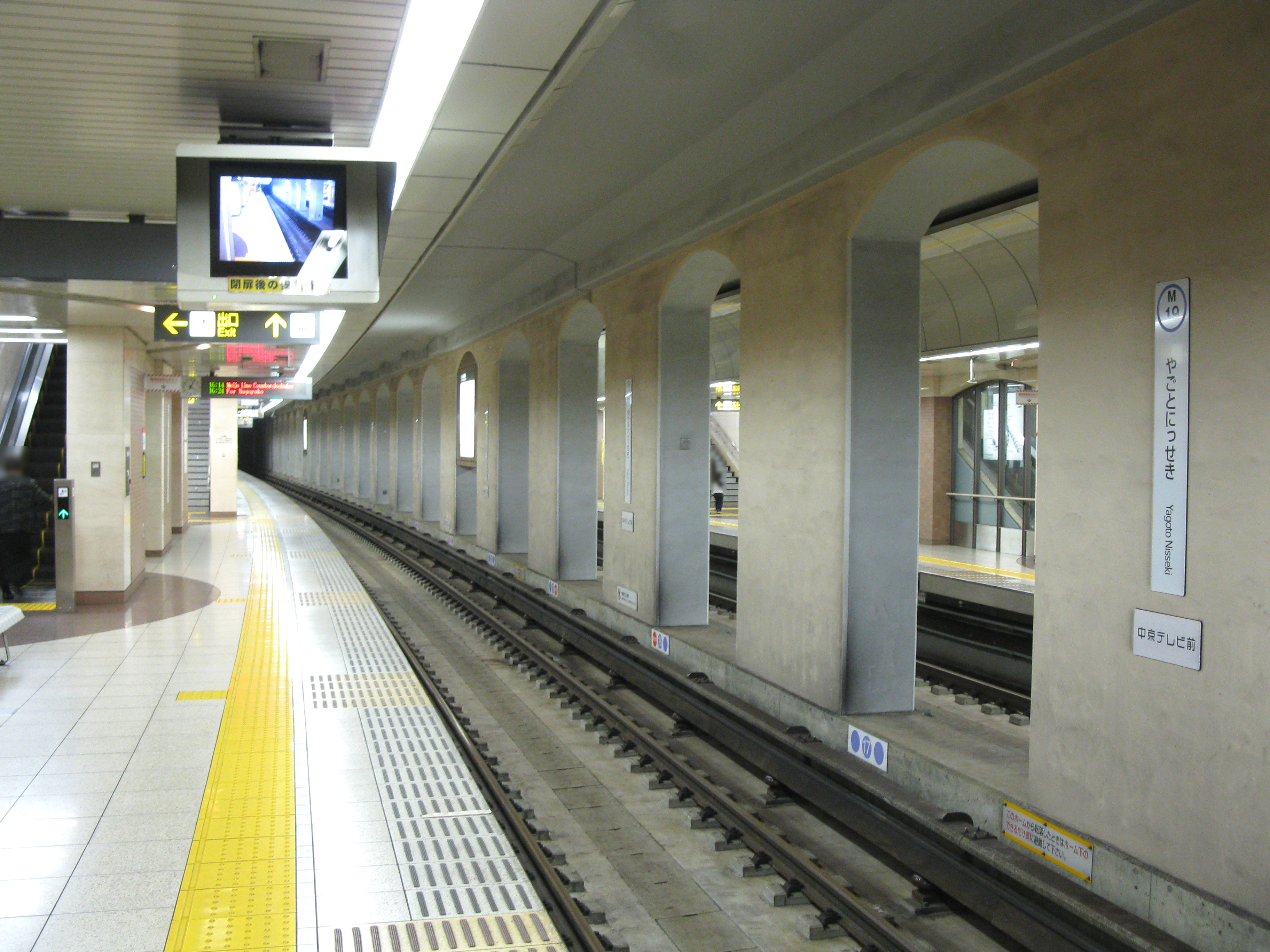 Yagoto Nisseki Station platform (Nagoya Municipal Subway Meijō Line)